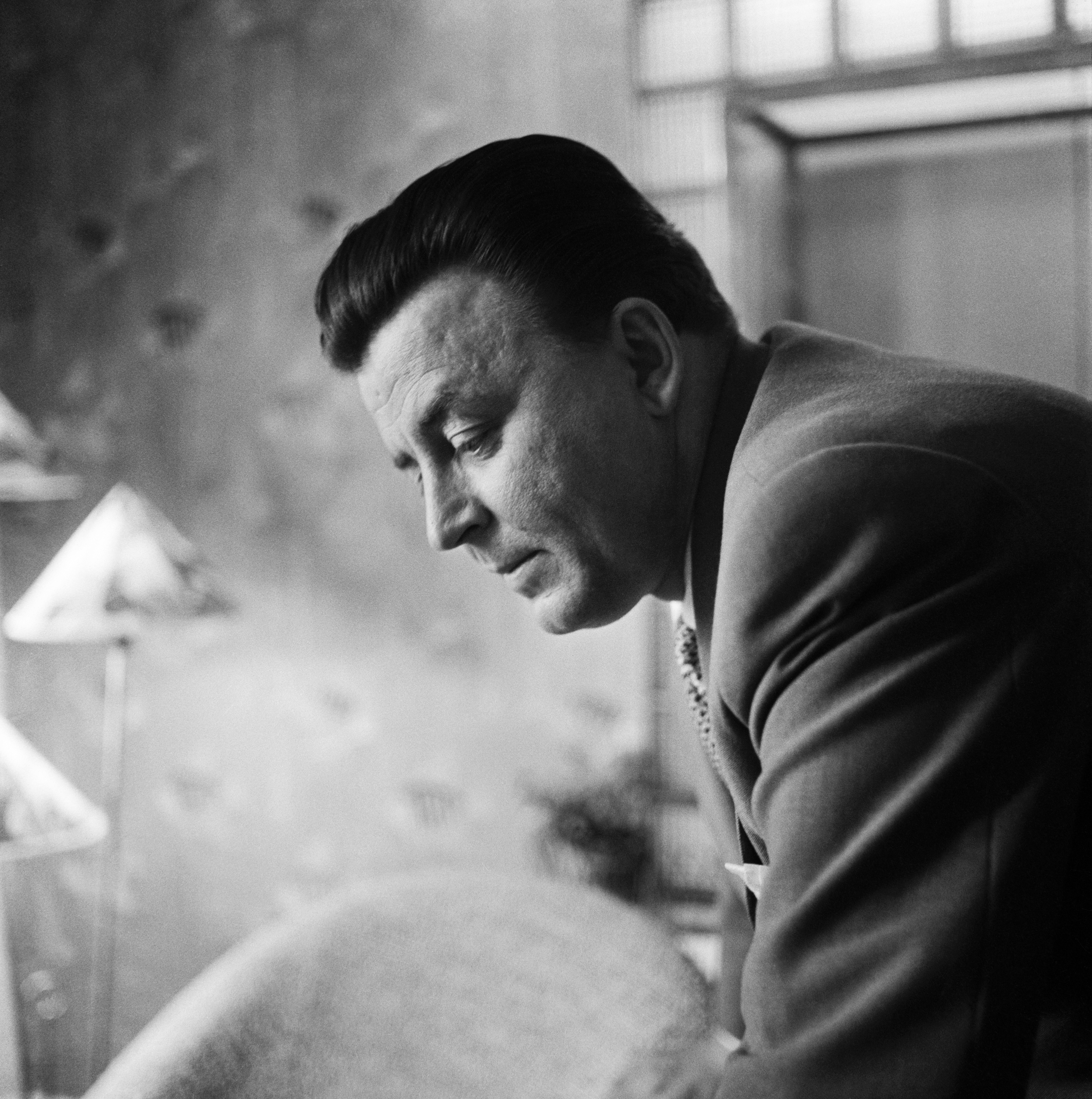 Photograph of the Finnish vocalist Olavi Virta (1915–1972) at his home in Kruununhaka, Helsinki.